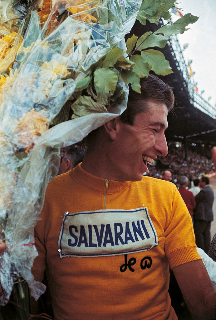 Italian racing cyclist of the Salvarani team and 52th Tour de France leading athlete Felice Gimondi wearing the yellow jersey at the Parc des Princes stadium. Paris, 14th July 1965